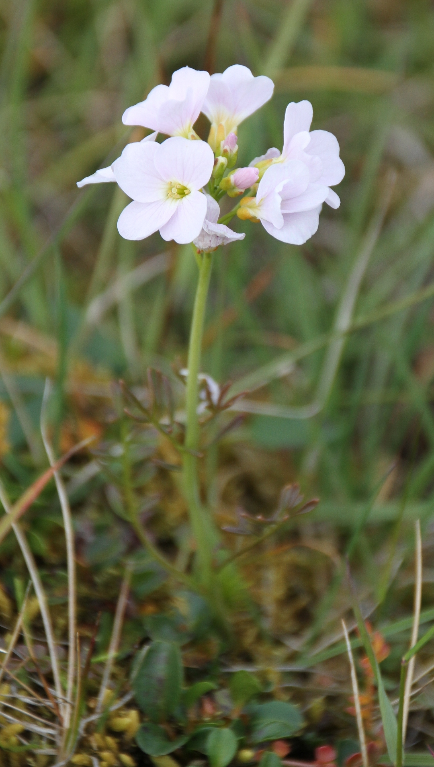 Plants at the Hotellneset / Vestpynten plain south of Longyearbyen airport, Spitsbergen (Norway Norwegian name = Polarkarse.